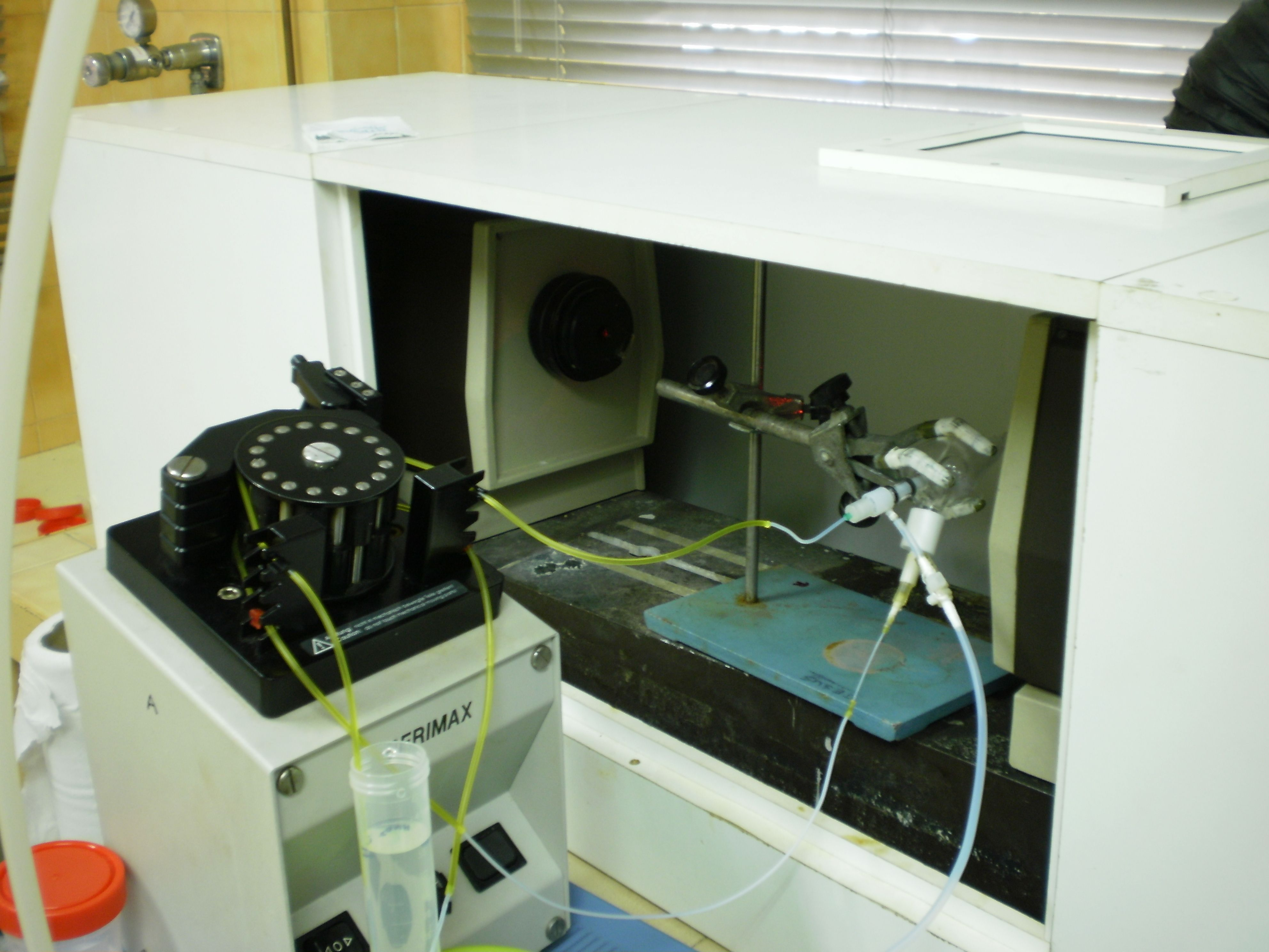 Drop size distribution analysis by laser diffraction technique